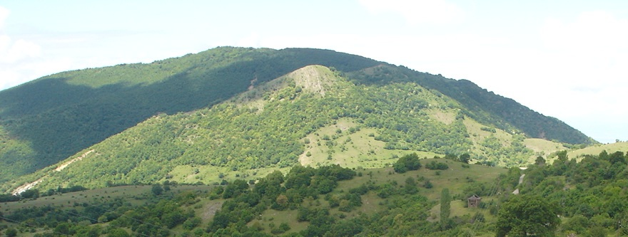 Plavica mountain in Kratovo region, Macedonia